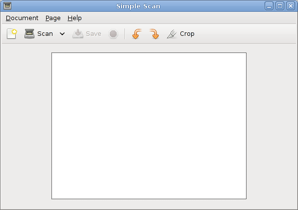 Simple Scan 2.32.0 screenshot